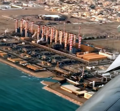 Aerial view of power stations at Ras Abu Fontas, Qatar.